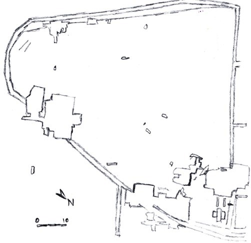 Sitemap of Dolni Vestonice 1 and 2